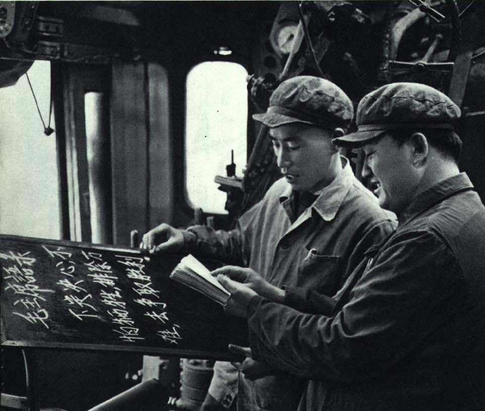 1967-02 1967年毛泽东号陈富汉与蔡连兴